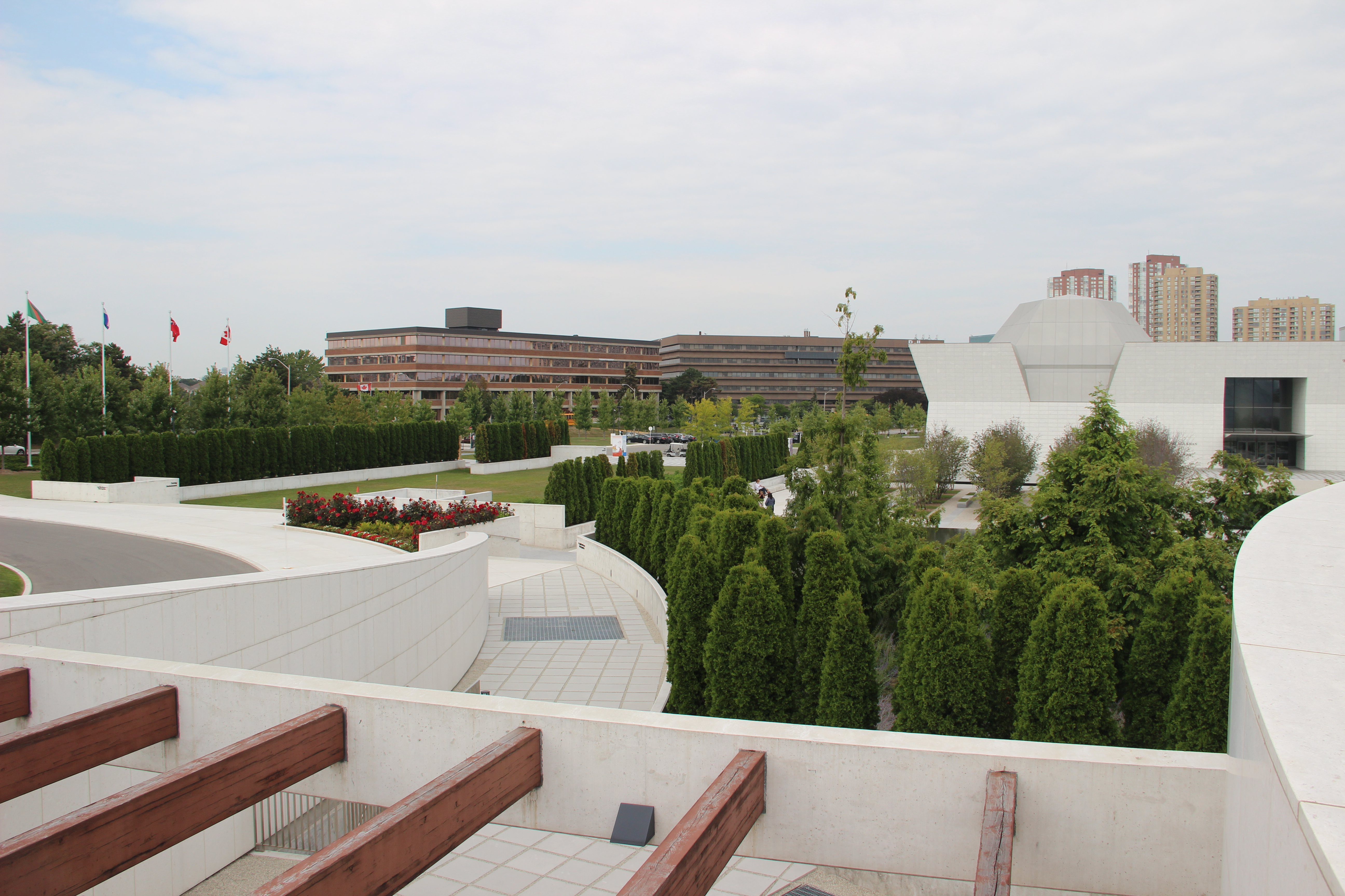 Aga Khan Museum, Toronto, Canada